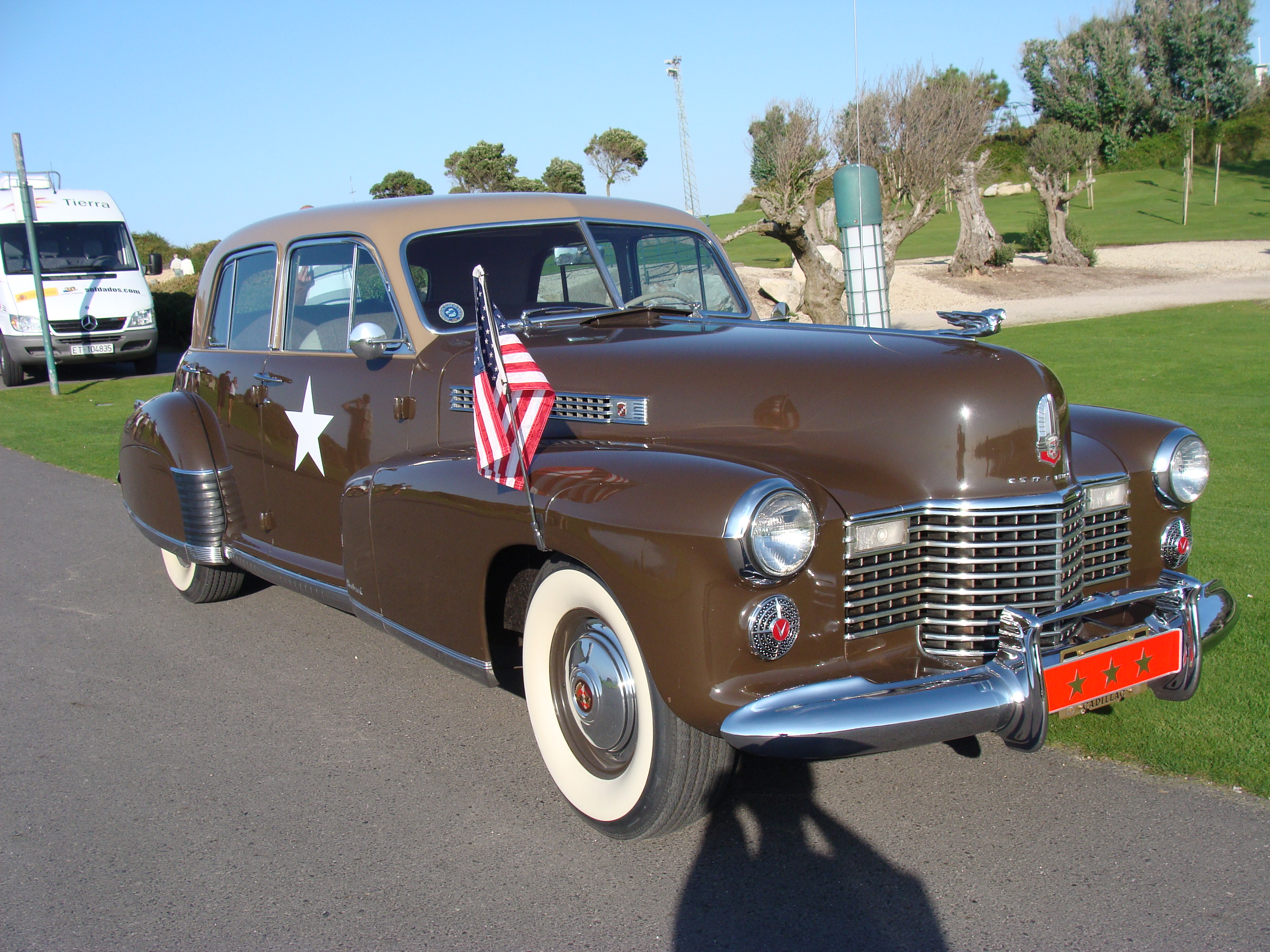 Cadillac Fleetwood 60S (U.S.A.) in Saint Pedro's Park in Corunna, Galicia, Spain.